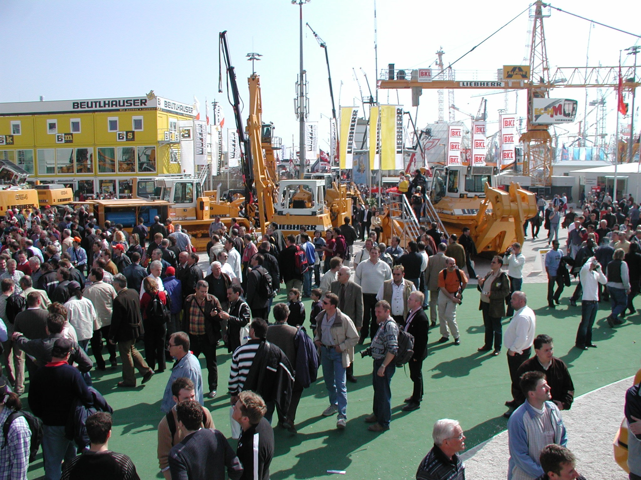 Bauma exhibition in Munich, 2004.